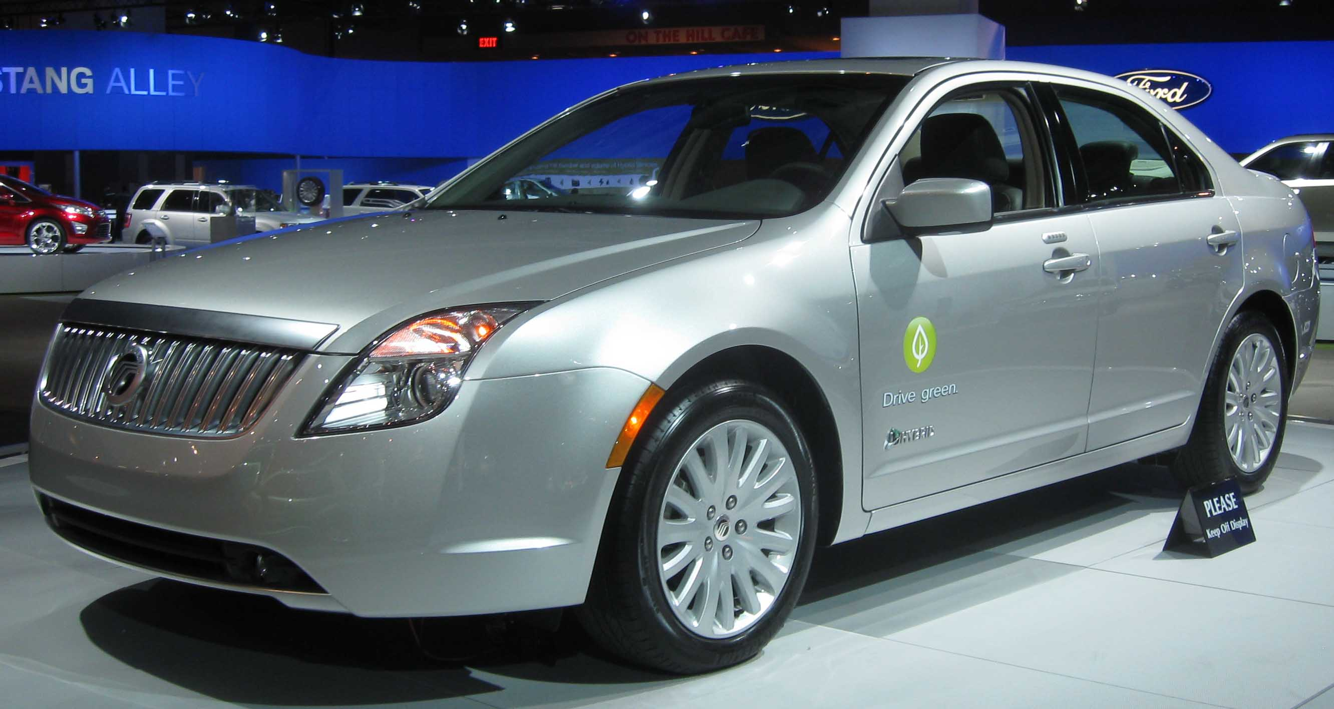 2010 Mercury Milan photographed at the 2009 Washington DC Auto Show.